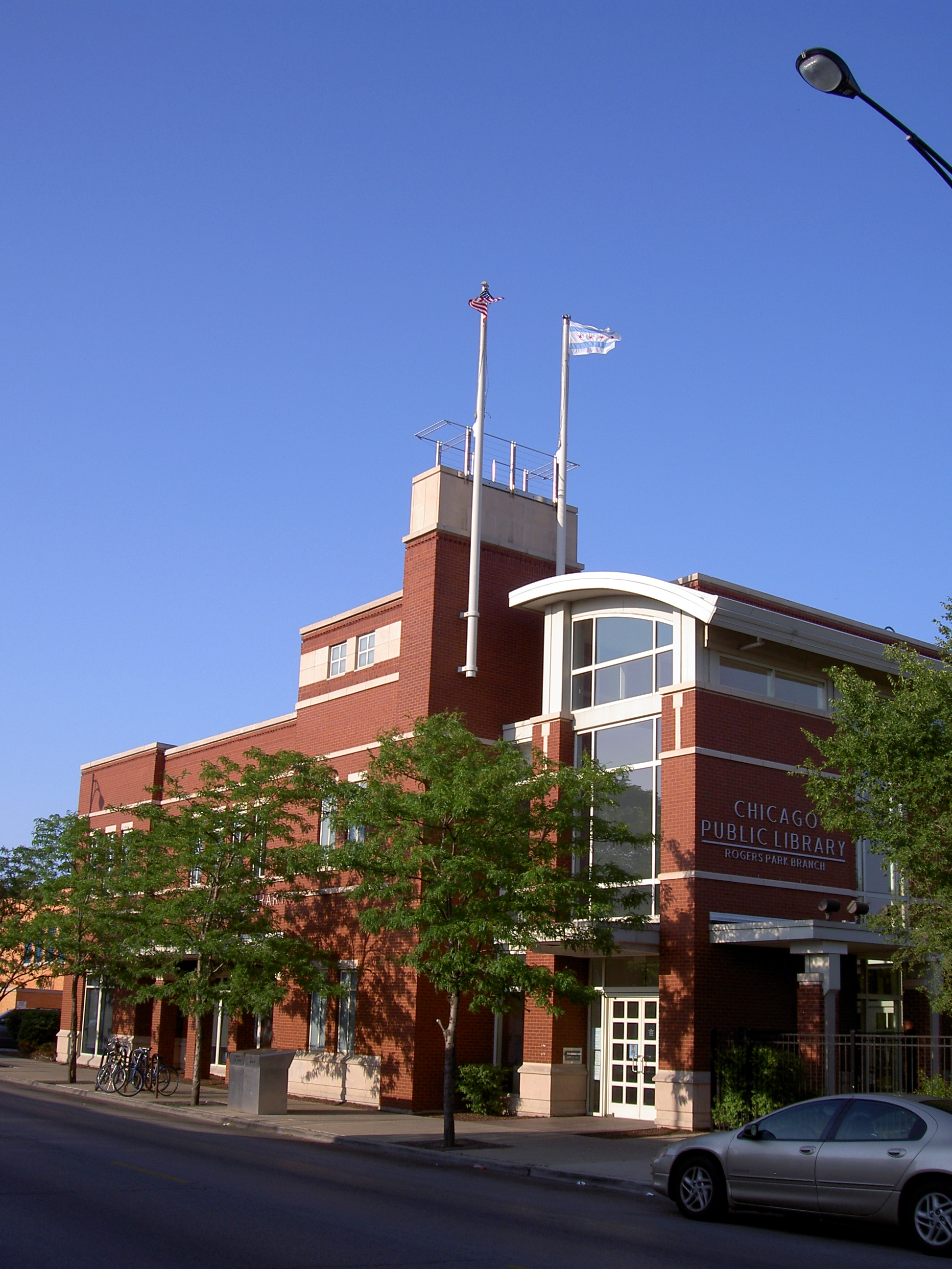 Chicago, IL